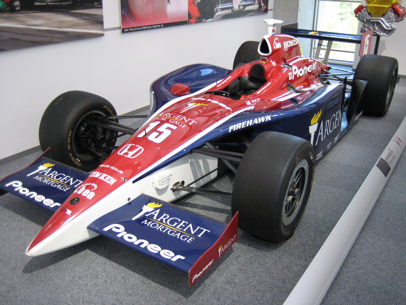 Panoz G-Force GF09B (#15, Driver: Buddy Rice, Equipe: Rahal Letterman Racing, Engine: Honda): Won the Indianapolis 500 in 2004.